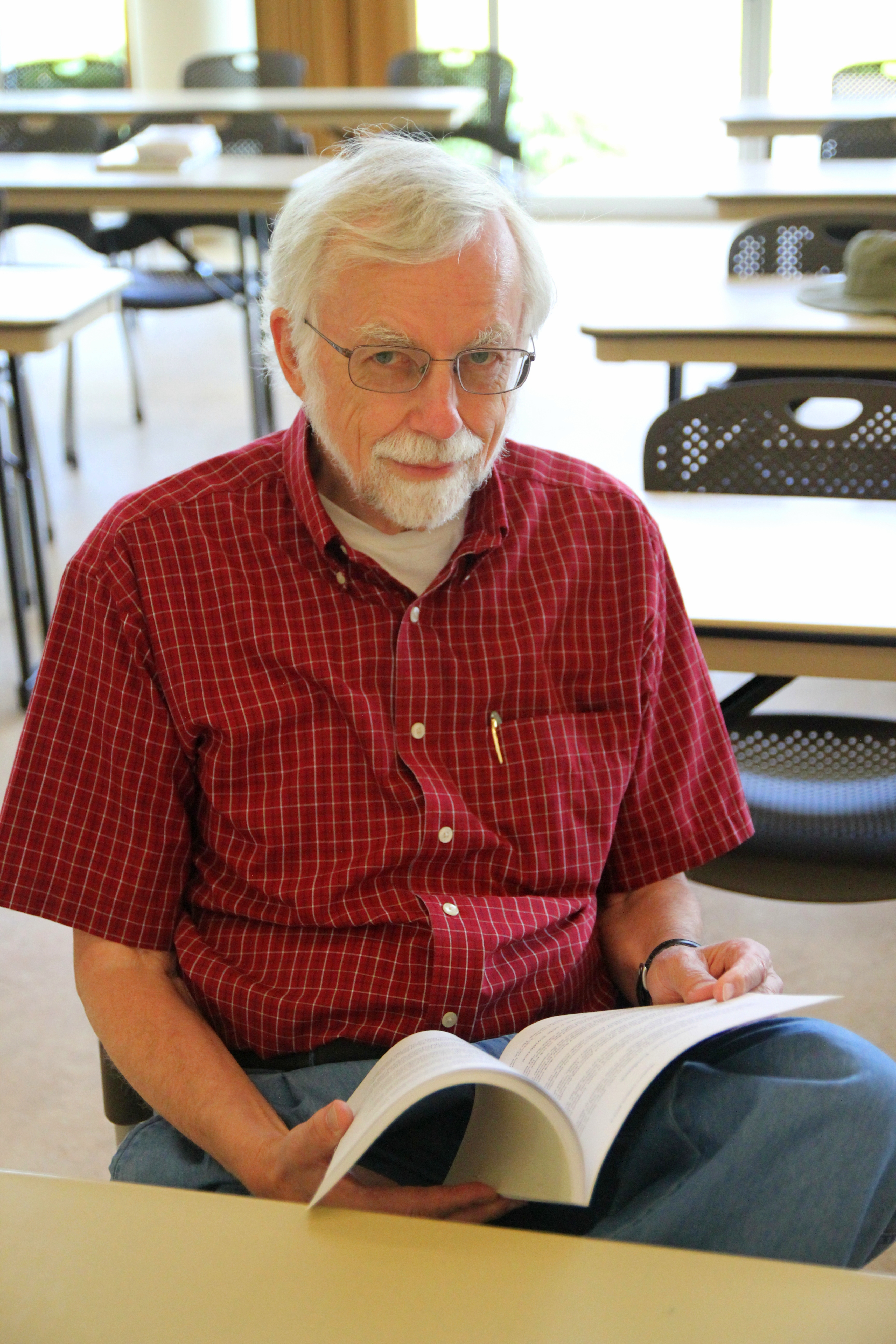 Loren Pankratz at the Skeptic's Toolbox